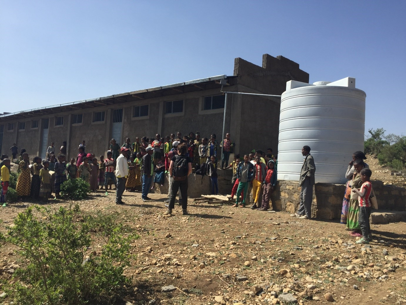 Sesemat SW roofwater